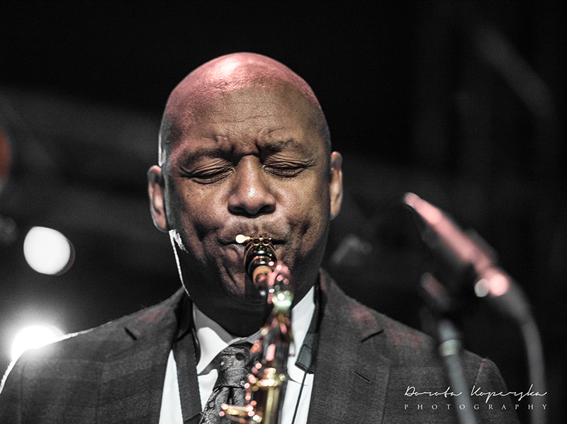 Branford Marsalis at a concert in Bielso-Biala at the Lotos Jazz Festival